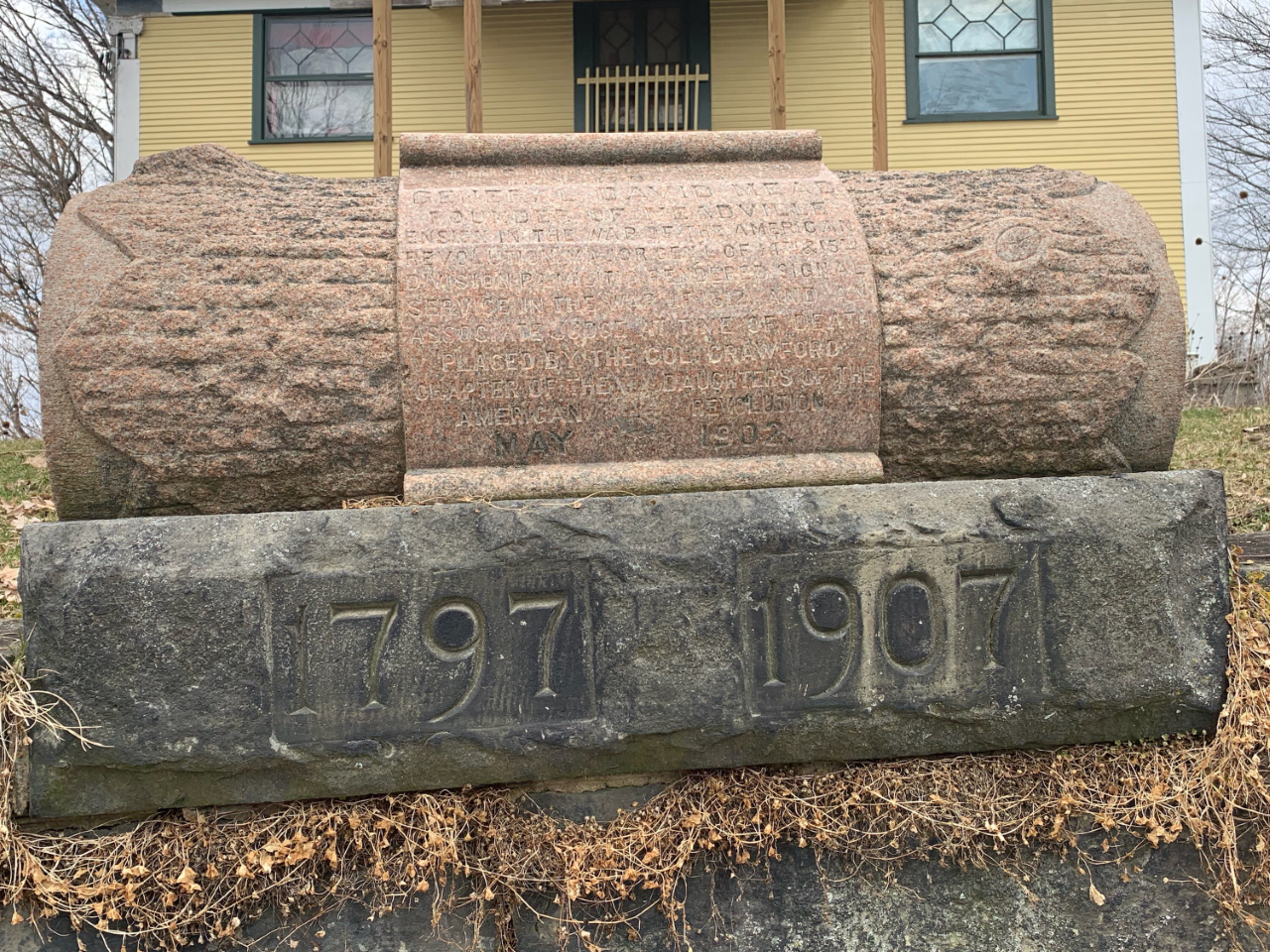 This image shows a monument in the shape of a scroll dedicated to the founder of Meadville, David Mead